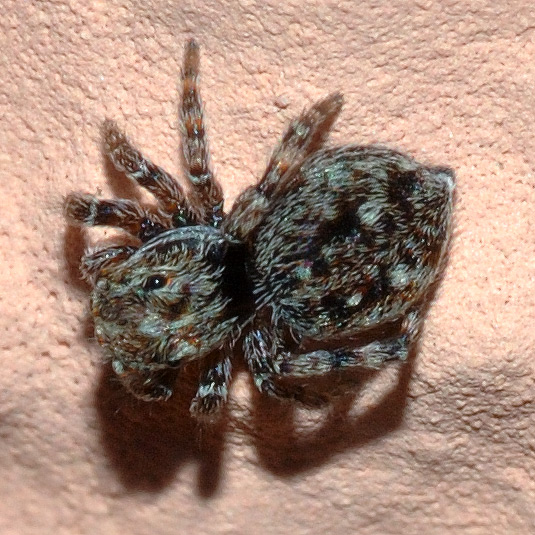 This image shows a 3.3 mm x 1.6 mm (0.13 x 0.07 inch) small female jumping spider of the species Sitticus pubescens from top.